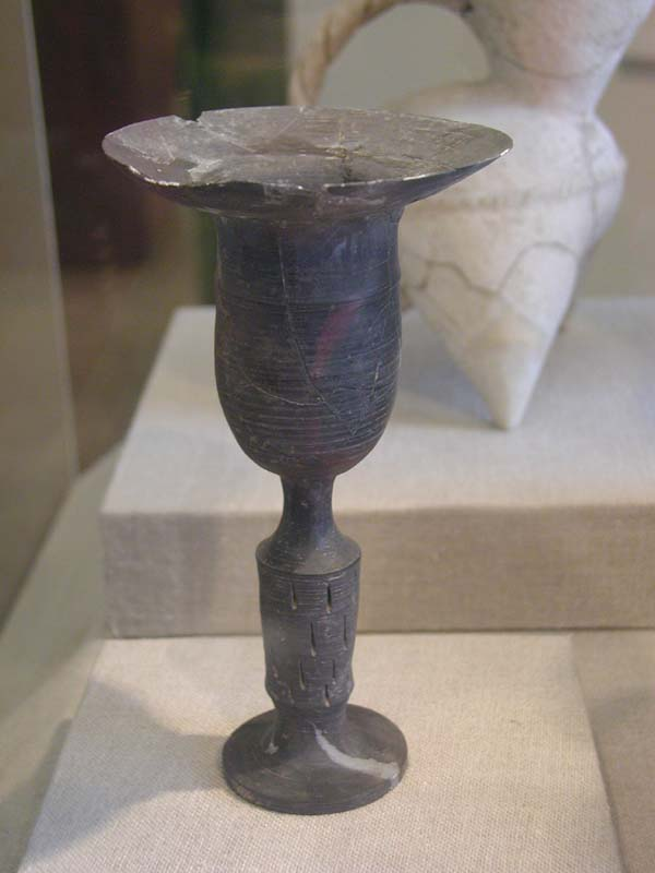 Eggshell thin cup from Longshan Culture discovered in Shandong, China. Photograph taken by Mountain on July 28, 2004 in Peking University. This picture has been released under GFDL.